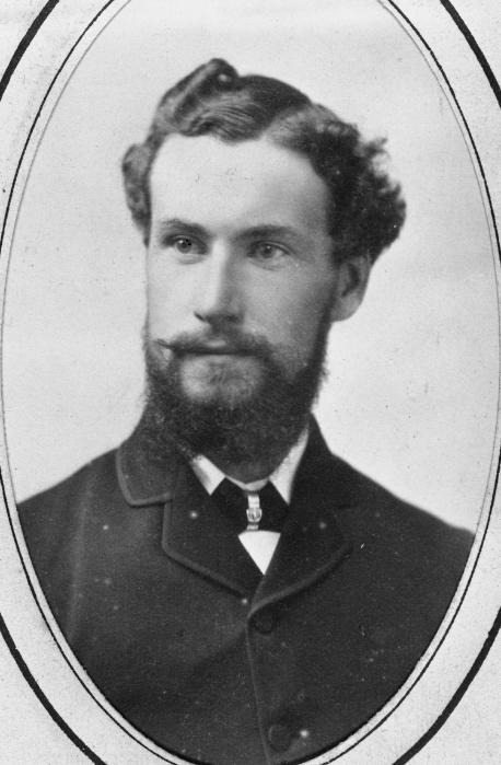 New Zealand architect John Campbell, from New Zealand Institution of Engineers : Album presented to W N Blair by officers of the Public Works Department in the Middle Island in 1884 (PA1-o-038)